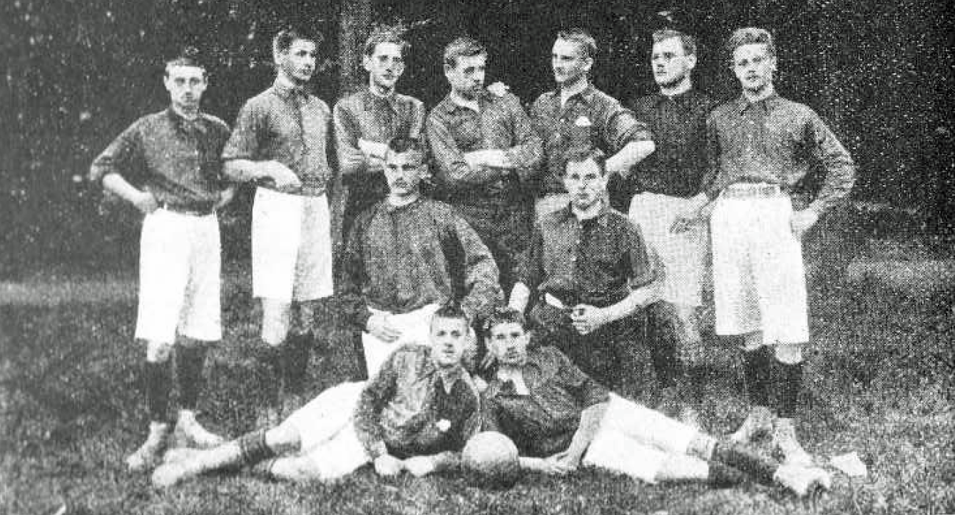 Team of the Karlsruher FV 1899